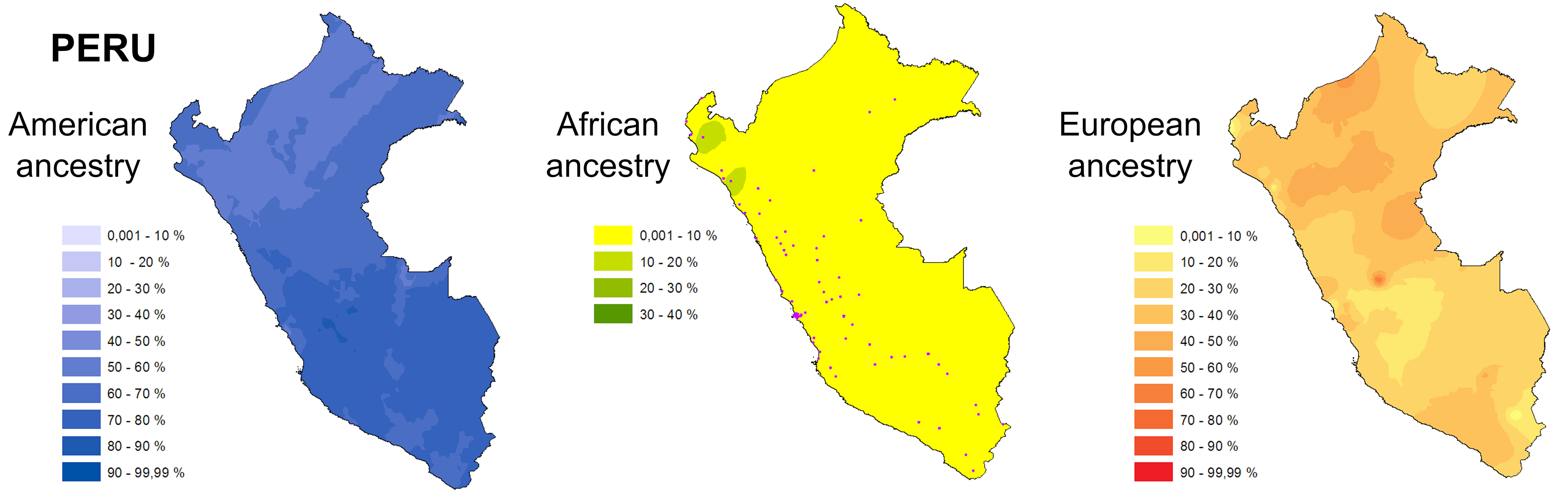 Geographic distribution of Native American (blue), African (green) and European (red) ancestry based on individual estimates for samples from Peru. The Peruvian sample shows substantial Native American ancestry throughout the country, particularly in the south, European ancestry appears highest around northern/central areas. African ancestry in Peru is generally low, except for parts of the northern coast. To facilitate comparison, color intensity transitions occur at 10% ancestry intervals for all maps. The birthplace of individuals are indicated by purple dots on the African ancestry map. Cropped from File:Geographic ancestry distribution of Brazil, Chile, Colombia, Mexico and Peru.png.